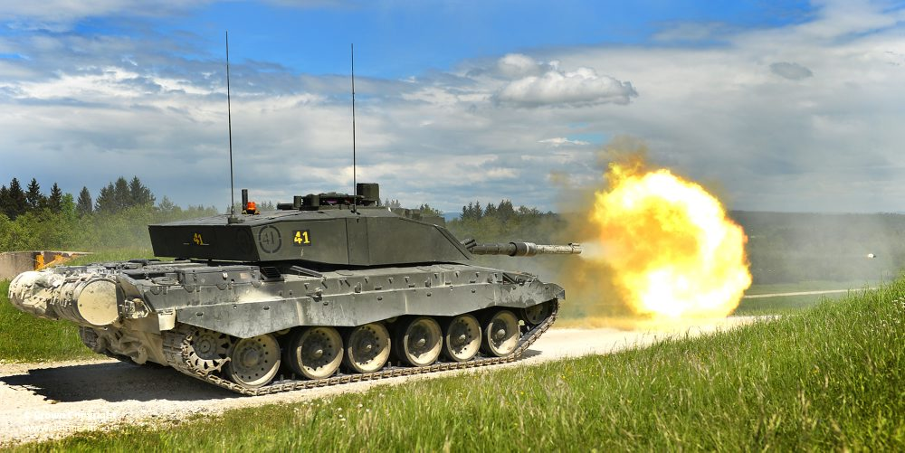 A Challenger 2 main battle tank (MBT) is pictured during a live firing exercise in Grafenwöhr, Germany.